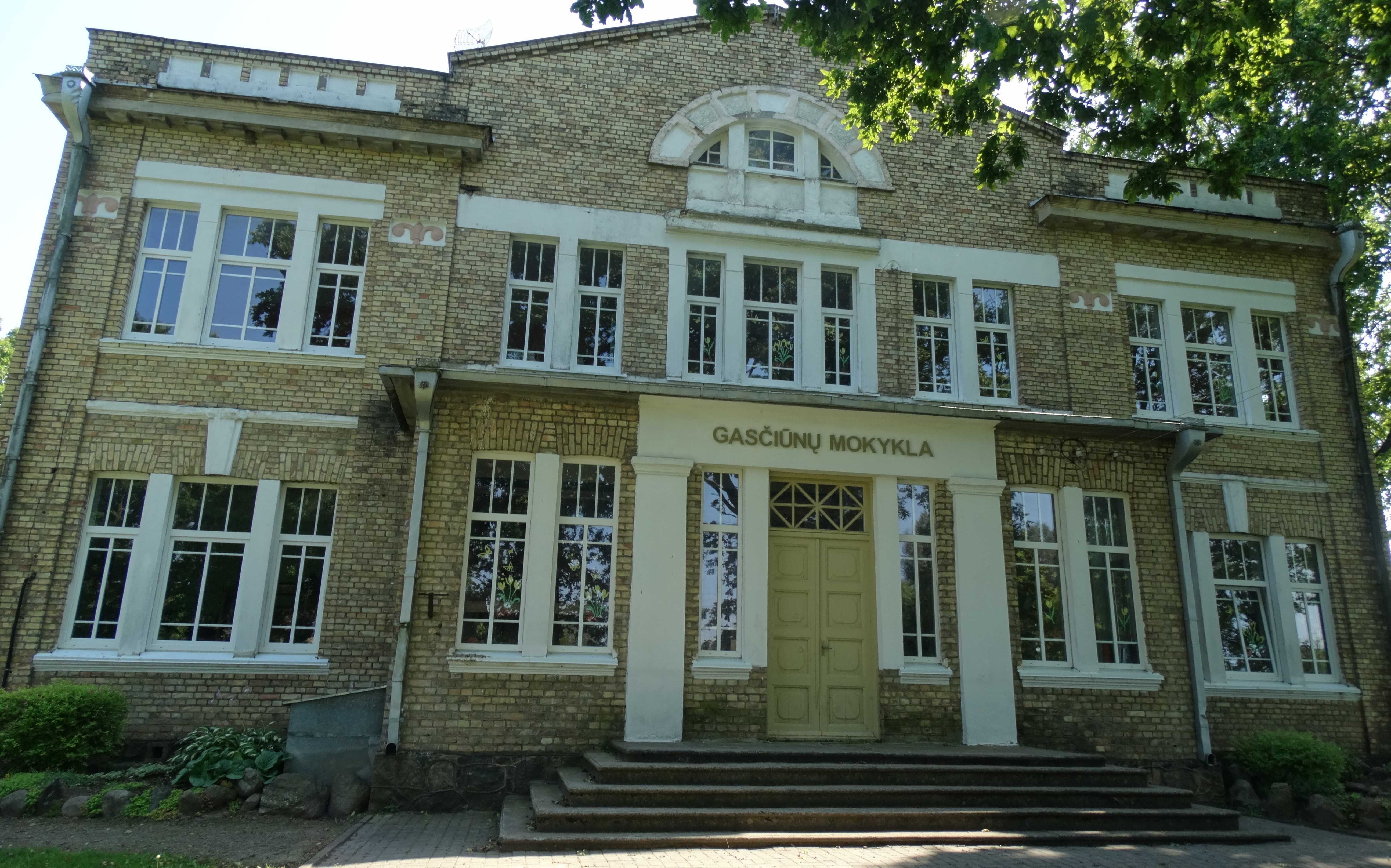 School, Gasčiūnai, Joniškis district, Lithuania